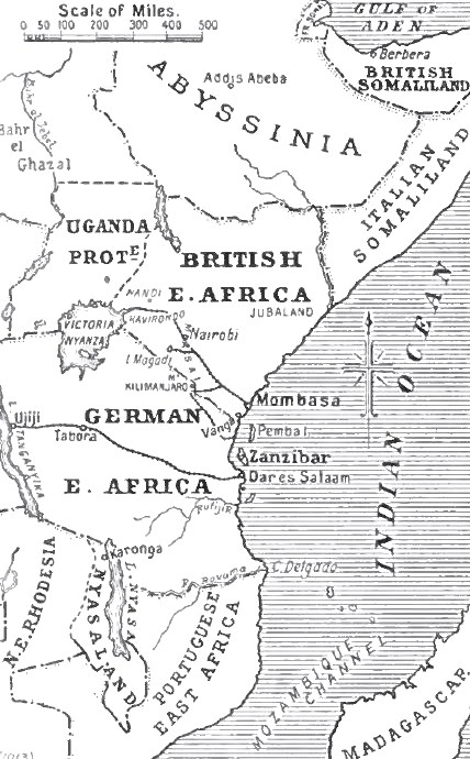 Map of East Africa 1914-1918